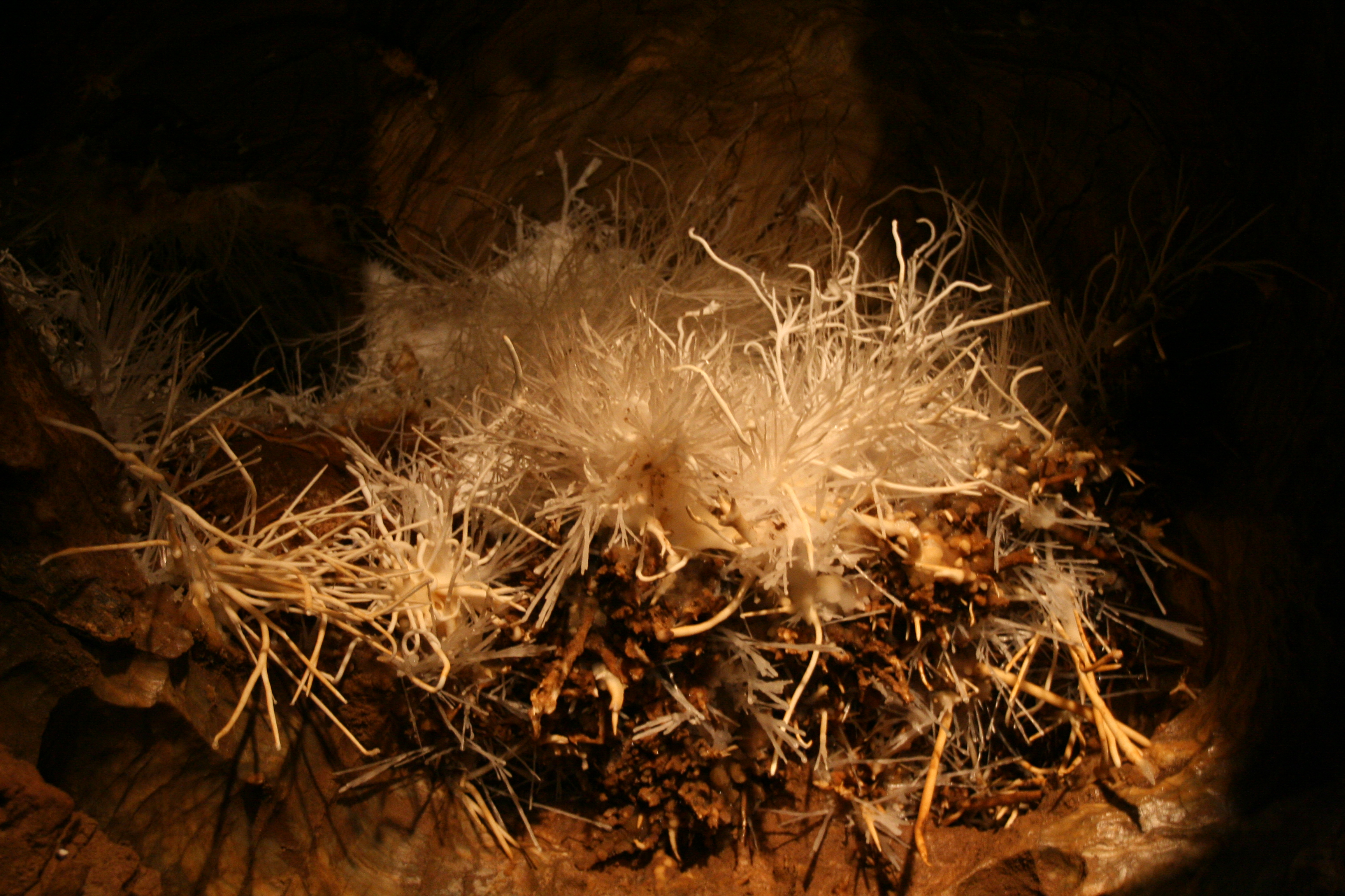 Ochtiná Aragonite Cave (Ochtinská aragonitová jaskyňa), Slovakia. Taking this photo was made possible through the financial support of Wikimedia Polska.